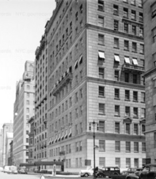 825 Fifth Avenue between East 63rd and East 64th Streets in the Lenox Hill neighborhood of Manhattan, New York City, c.1939-1941. Built in 1926-1927 by the Paterno Borthers.